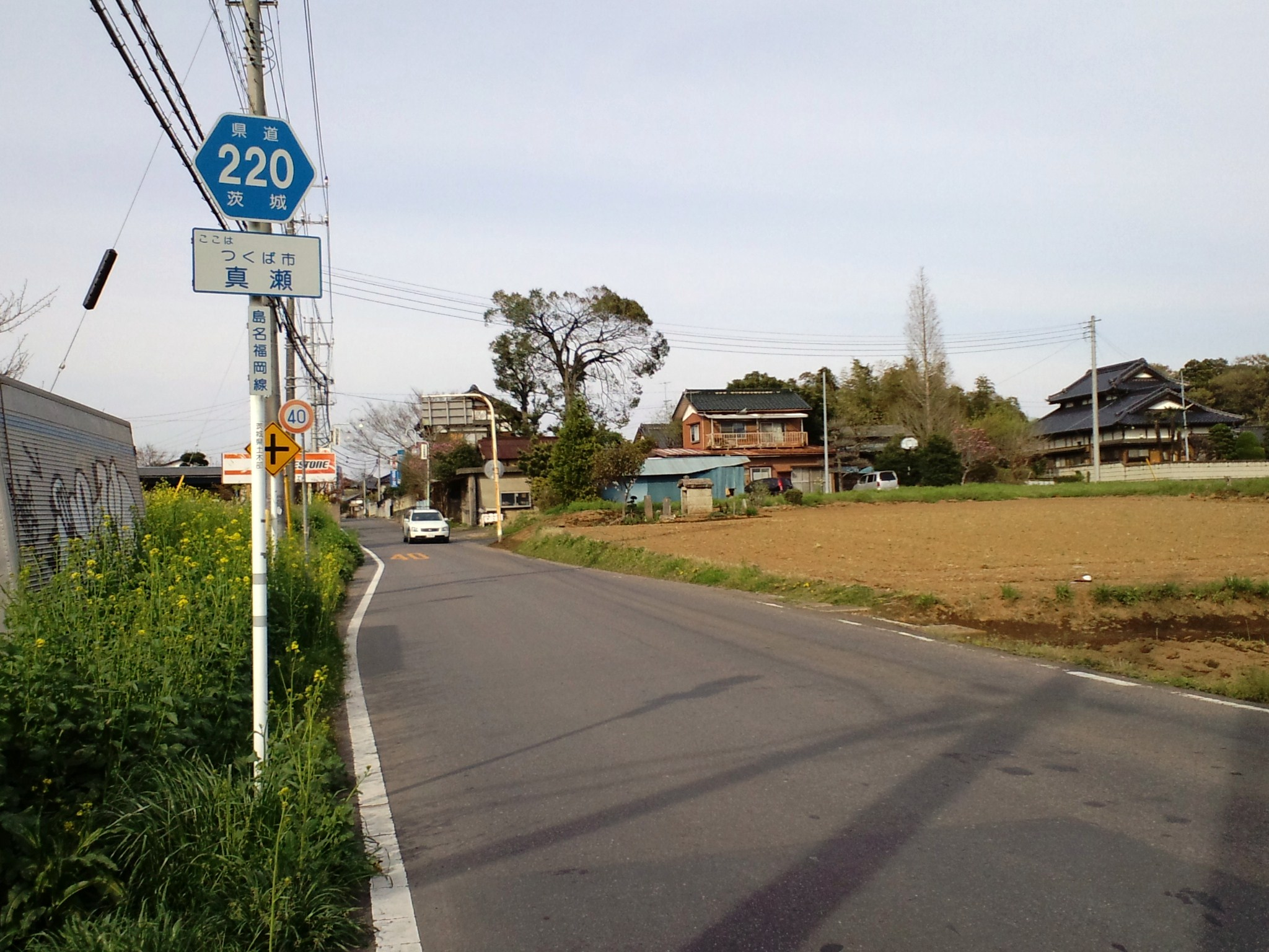 Ibaraki prefectural road 220(Shimana-Fukuoka line) in Mase, Tsukuba city, Ibaraki pref., Japan.